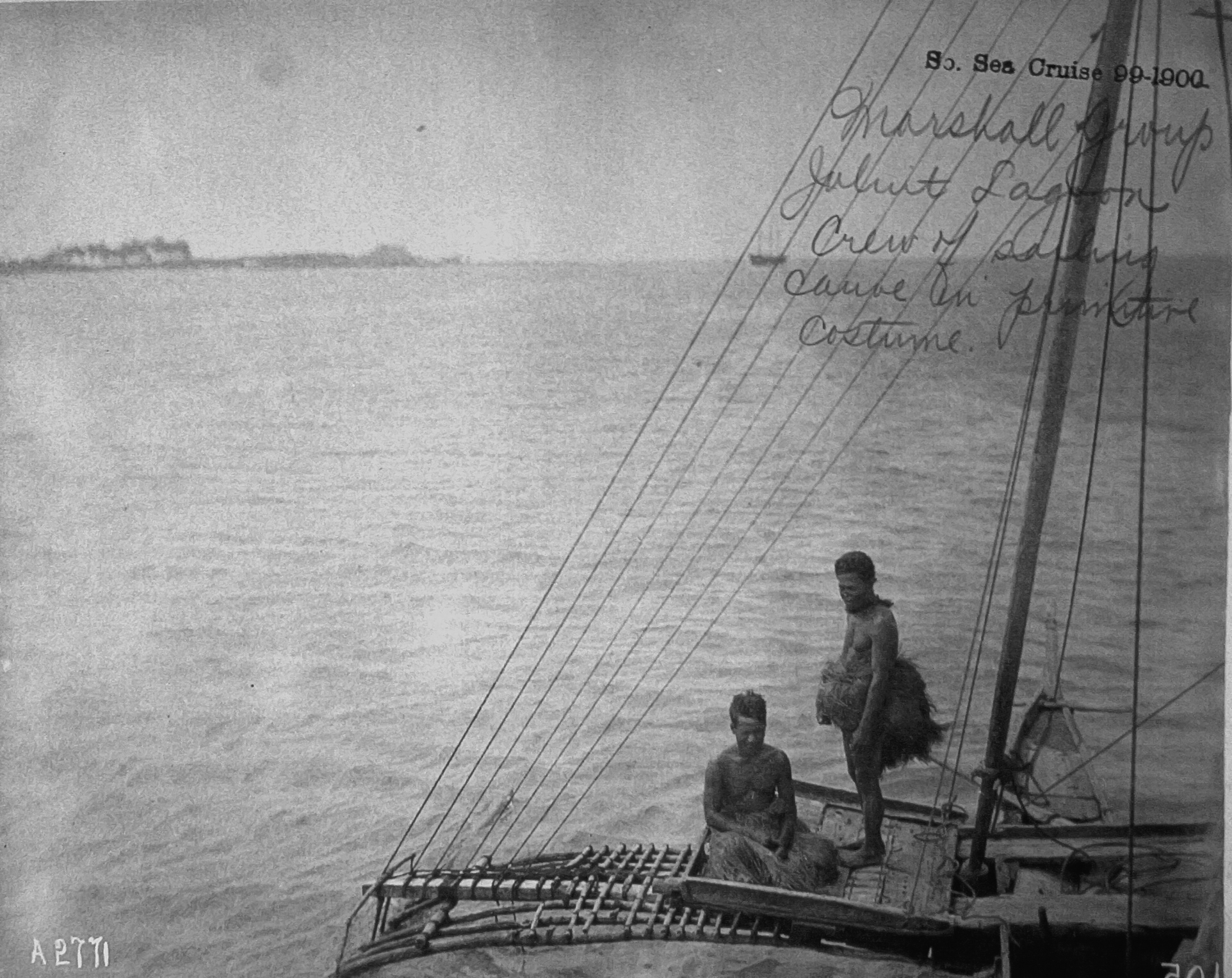 "Marshall Group, Jaliut Lagoon, crew of sailing canoe in primitive costume" from